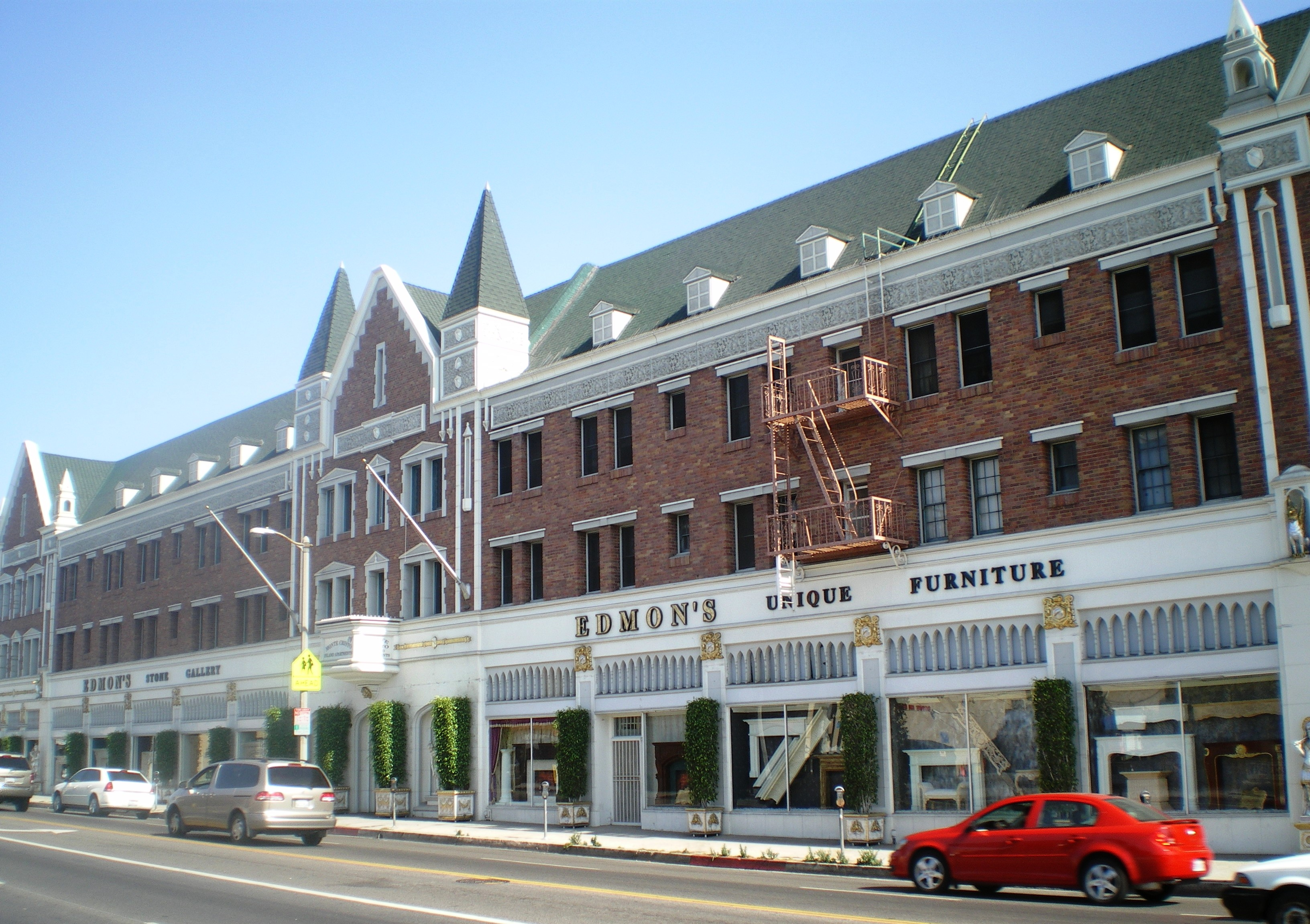 Hollywood Melrose Hotel (Monte Cristo Island Apartments), 5150-70 Melrose Blvd., Los Angeles, California